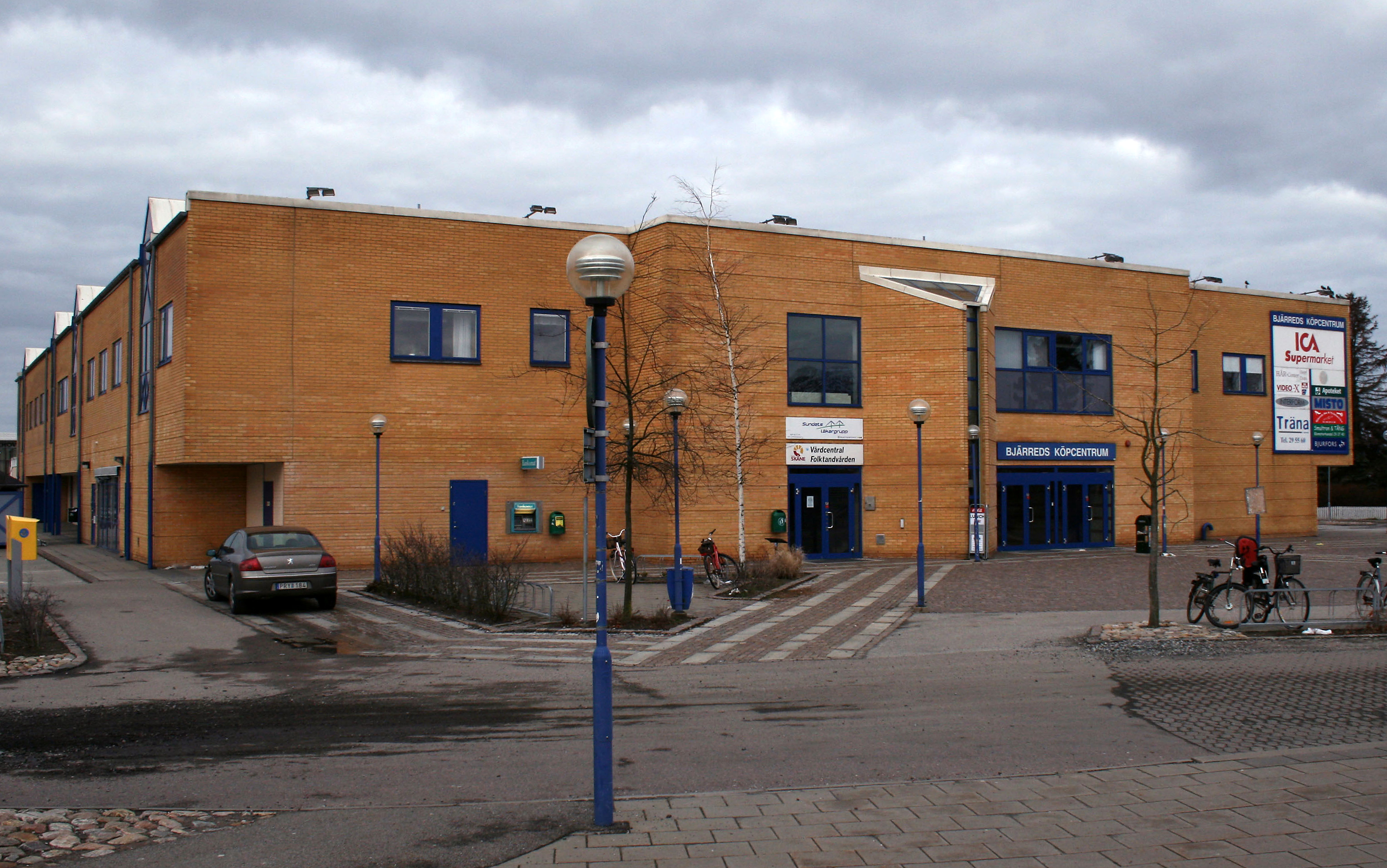 Shopping mall and healthcare center in Bjärred, Sweden